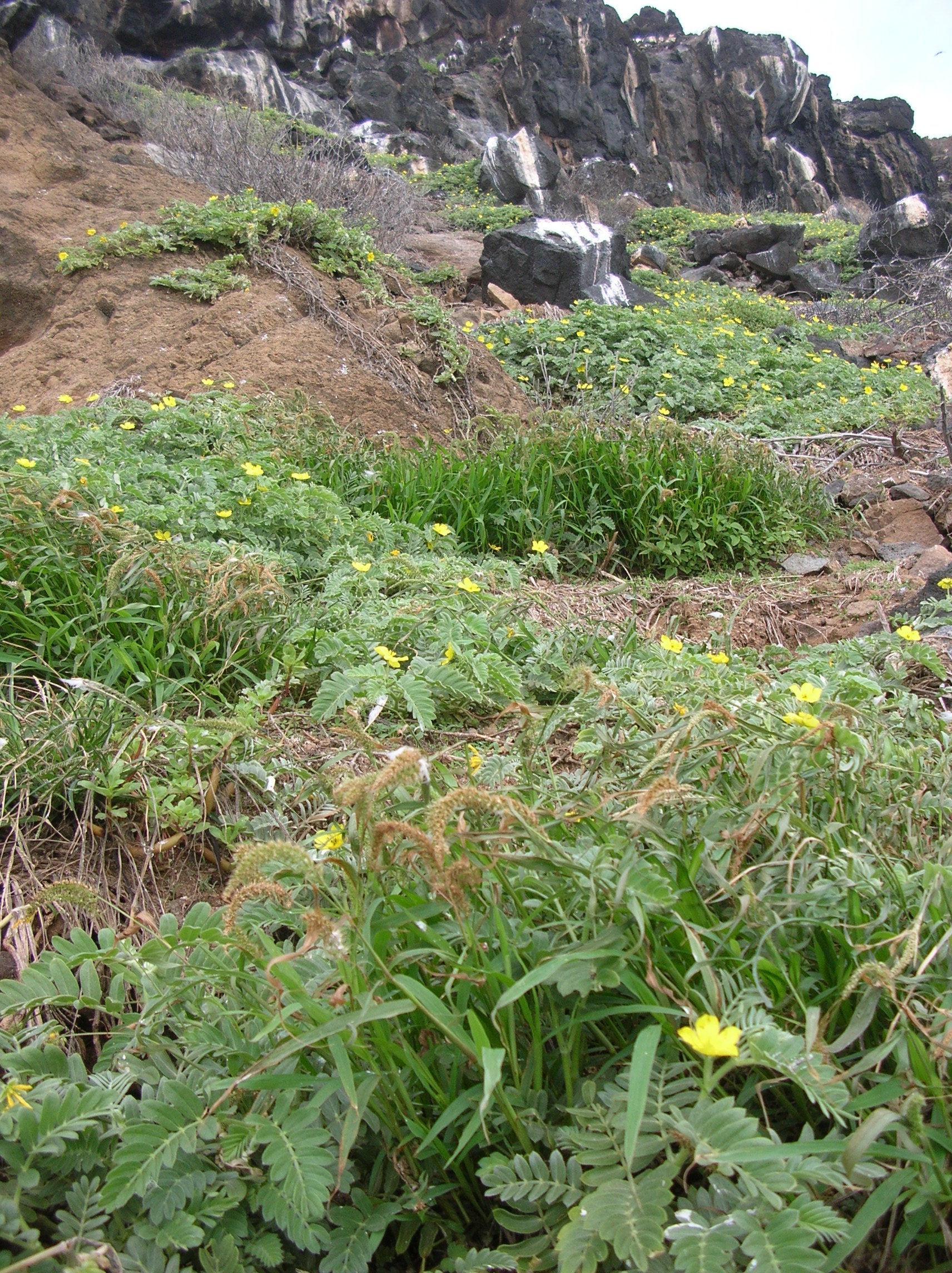 Setaria verticillata (habit). Location: Oahu, Moku Manu